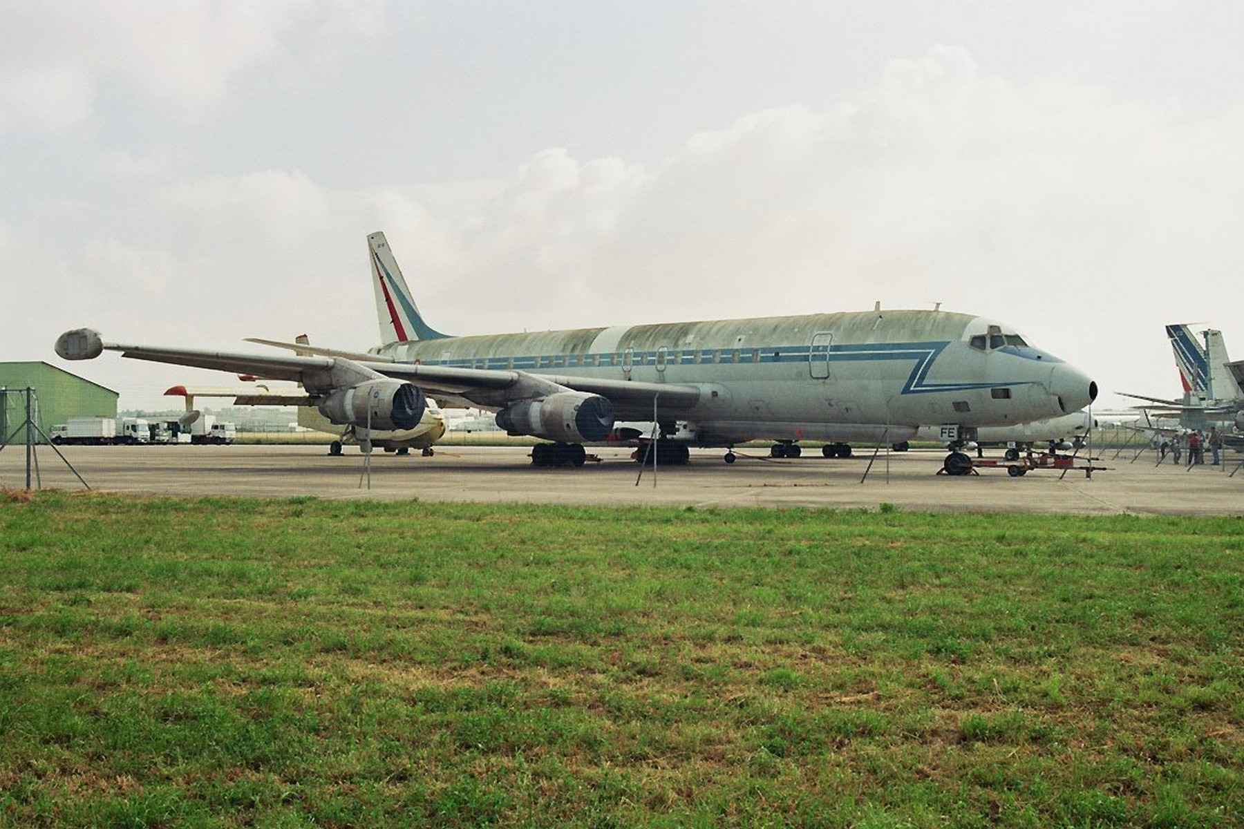 DC-8-53 F-RAFE / 45570; Former french spy plane, seen here near Paris Le Bourget air & space museum at Dugny.